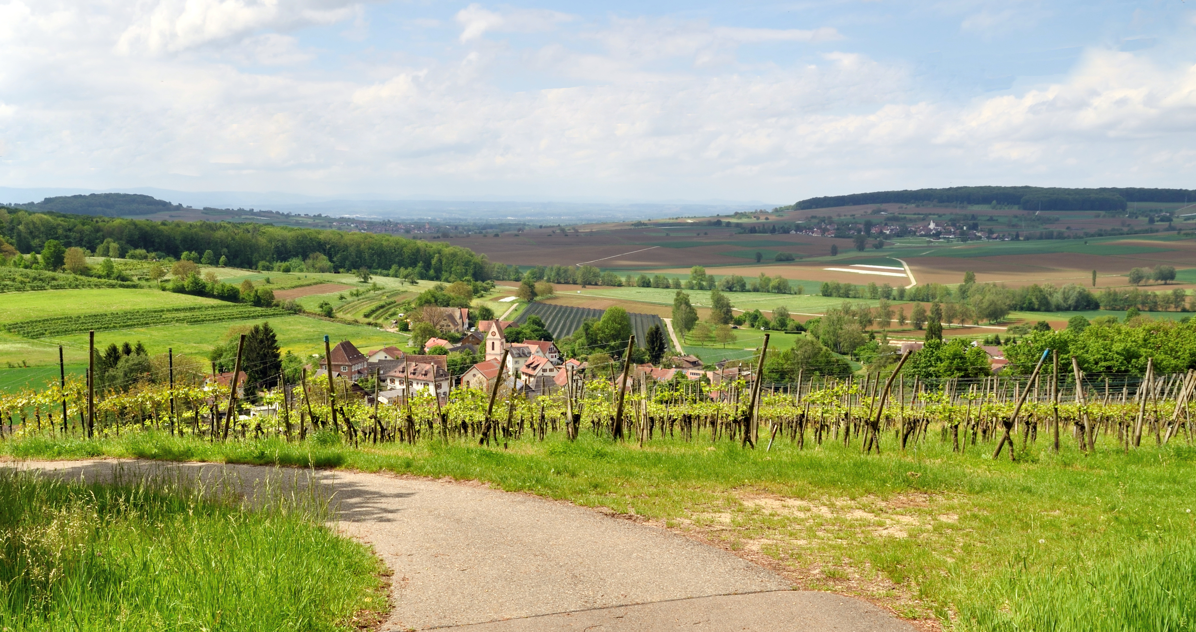 Holzen